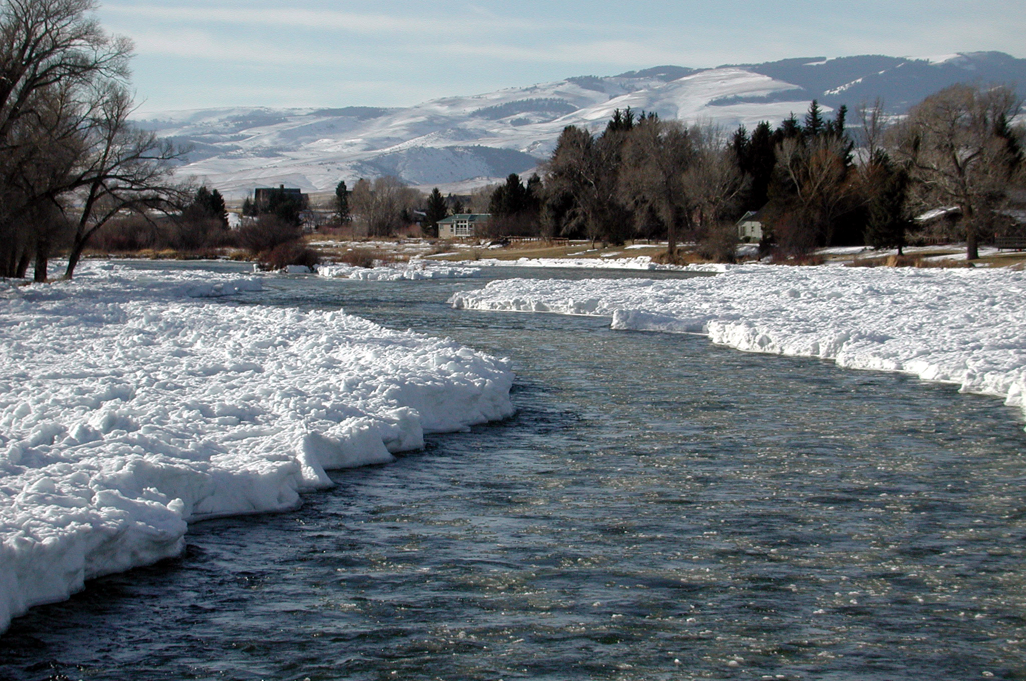 Madison River from bridge at Ennis, Montana